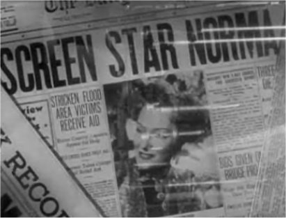 Screenshot taken by me (Icea) from the trailer to the movie Sunset Blvd.